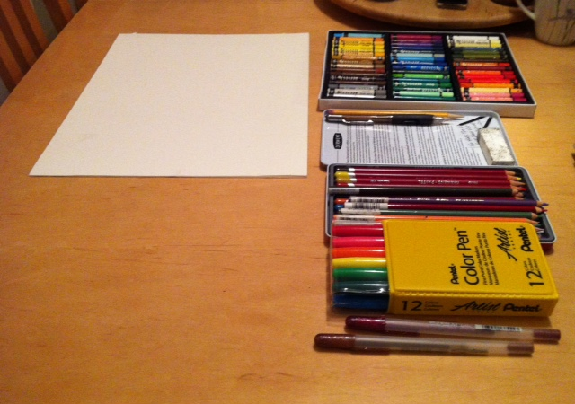 Art Mediums commonly used in Art Therapy